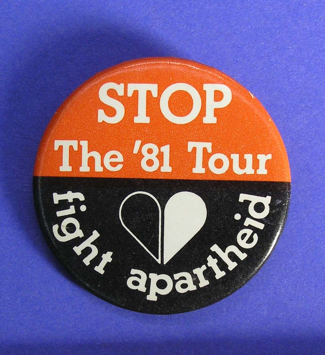 Protest badge, 'Stop the '81 Tour fight apartheid', issued in New Zealand by HART (Halt All Racist Tours) button badge; red top half, black bottom half with white text- STOP - The '81 Tour above HART symbol; "fight apartheid"; safety pin fastening; inscribed on reverse- EYP LID - BOX 48004 AK